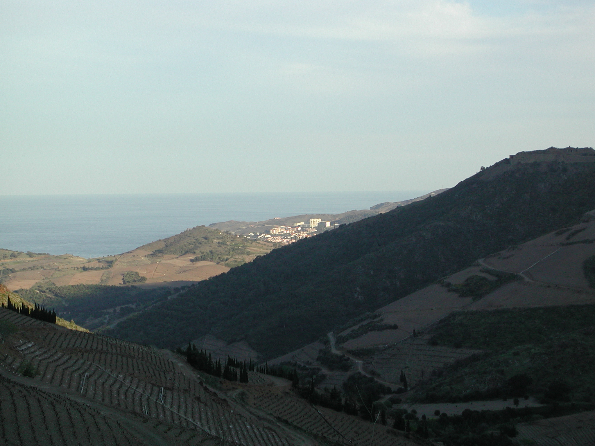 The vineyards of the French wine region of Banyuls among the foothills of the Pyrenees in Roussillon.